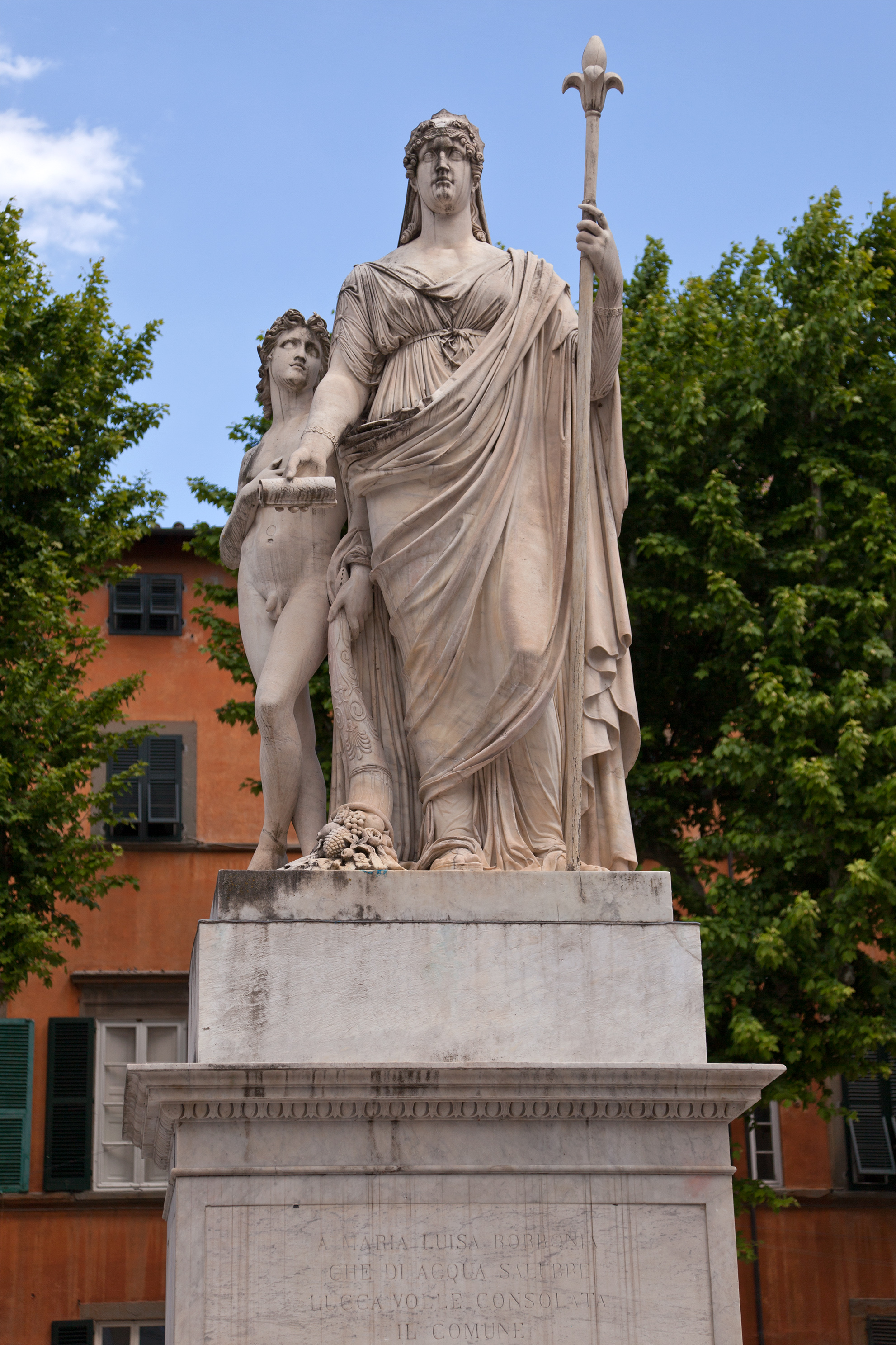 Maria Luisa of Spain, Duchess of Lucca, monument in Lucca